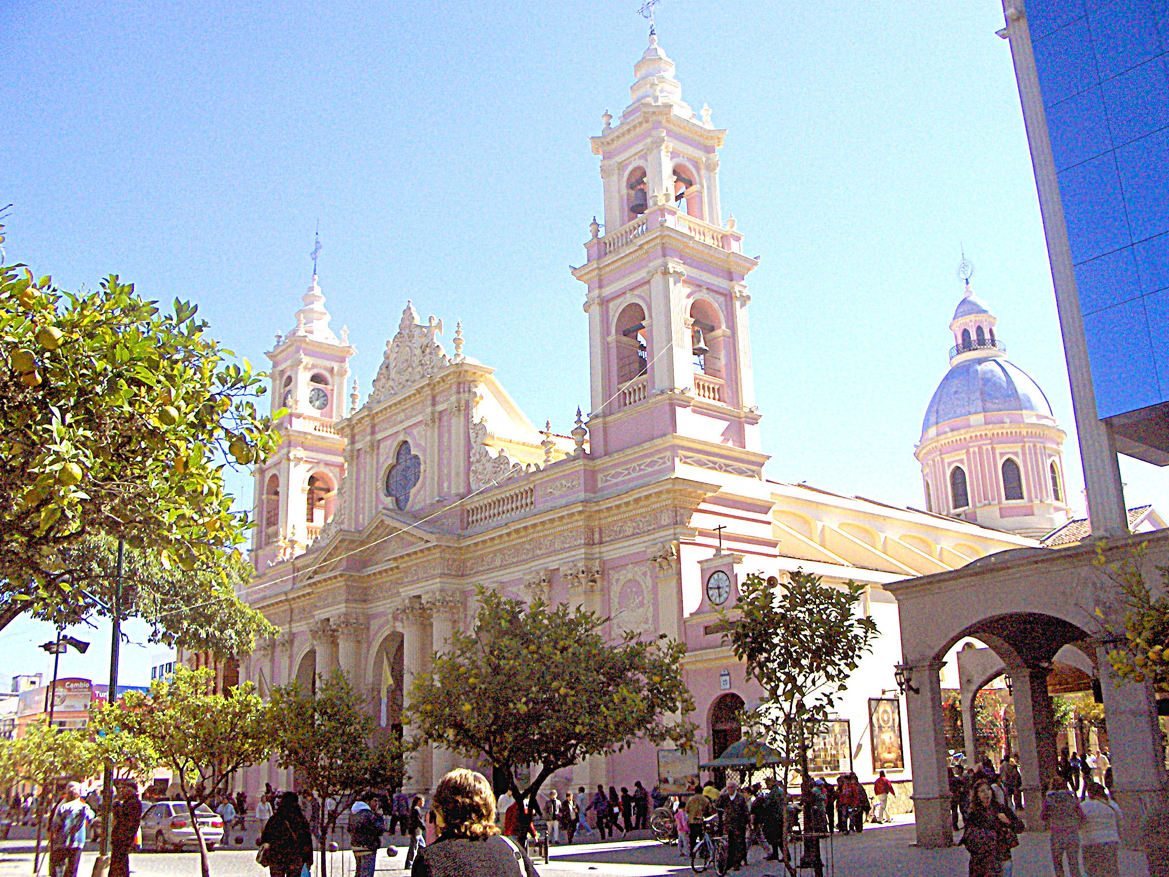 Main Cathedral, Salta, Argentina.